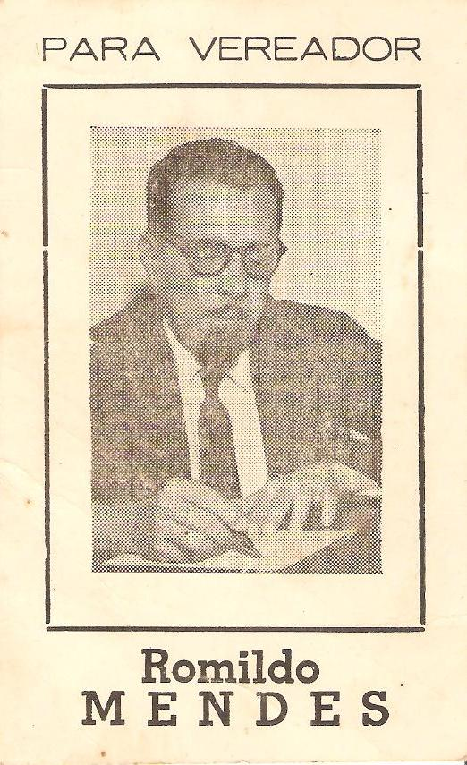 Arquivo Memorial Dr. Romildo Borges Mendes